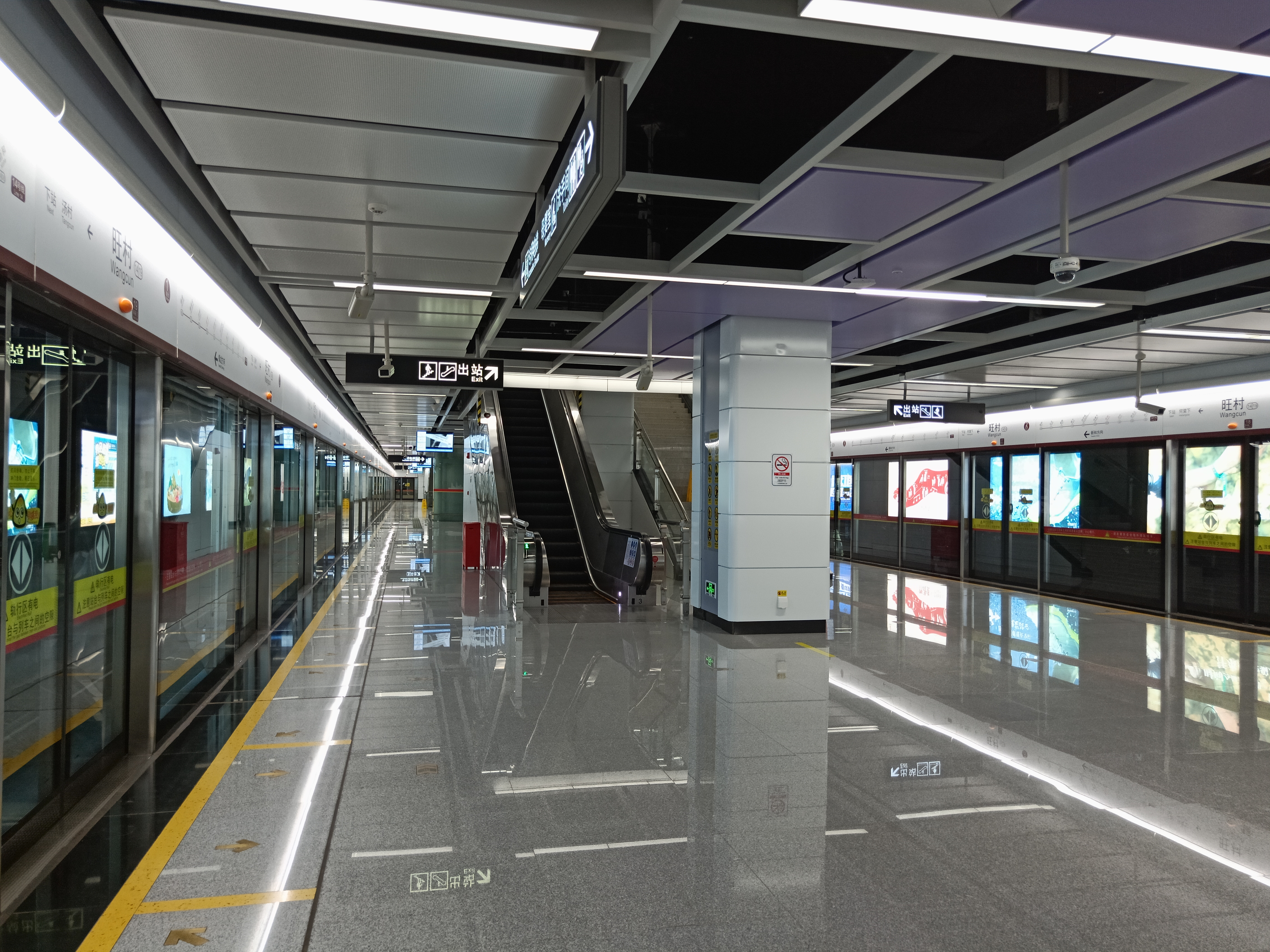 Station Platform for Wangcun Station in Guangzhou Metro.